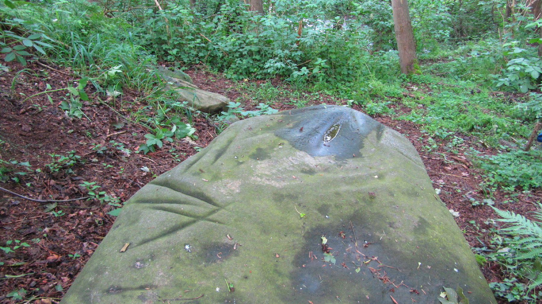 neolithic polishing stone Slenaken